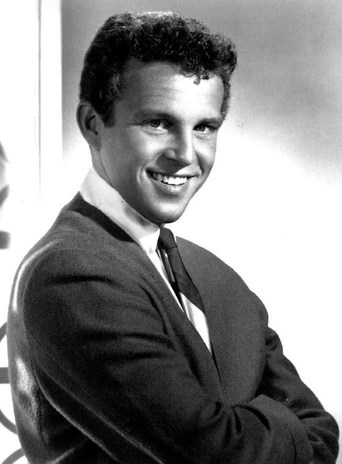 Publicity photo of singer Bobby Vinton.